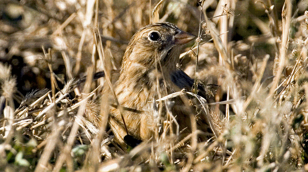 Smith's Longspur Calcarius pictus, Neal Smith NWR, Iowa. Credit: Paul Roisen/USFWS